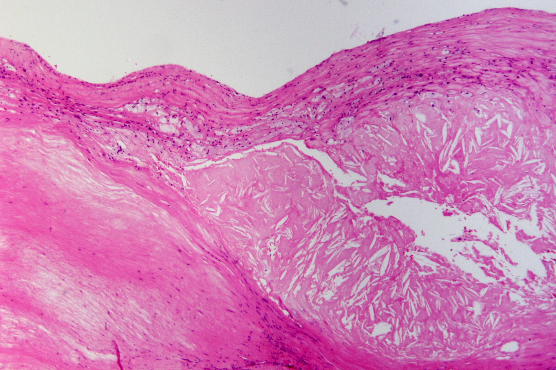 Atherosclerosis.